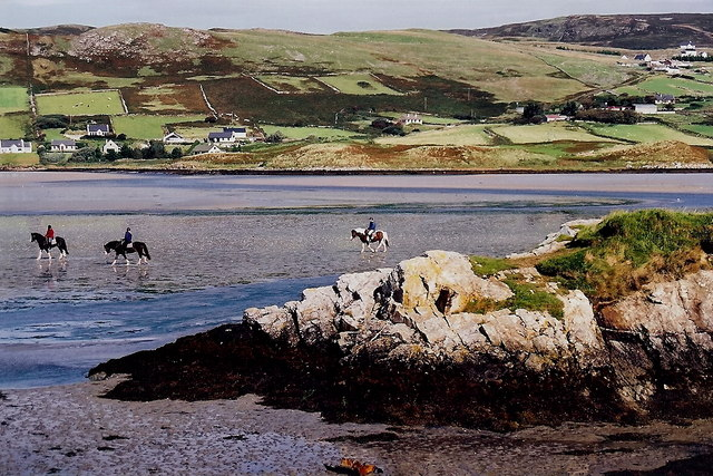 Dunfanaghy - Horses in Sheephaven Bay Horn Head is shown across the bay.